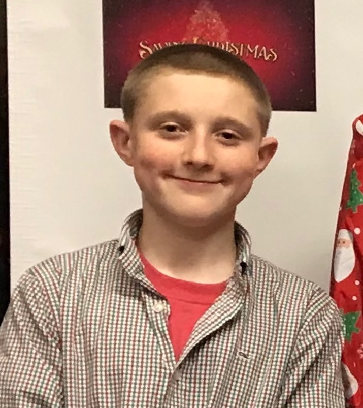 December 2017